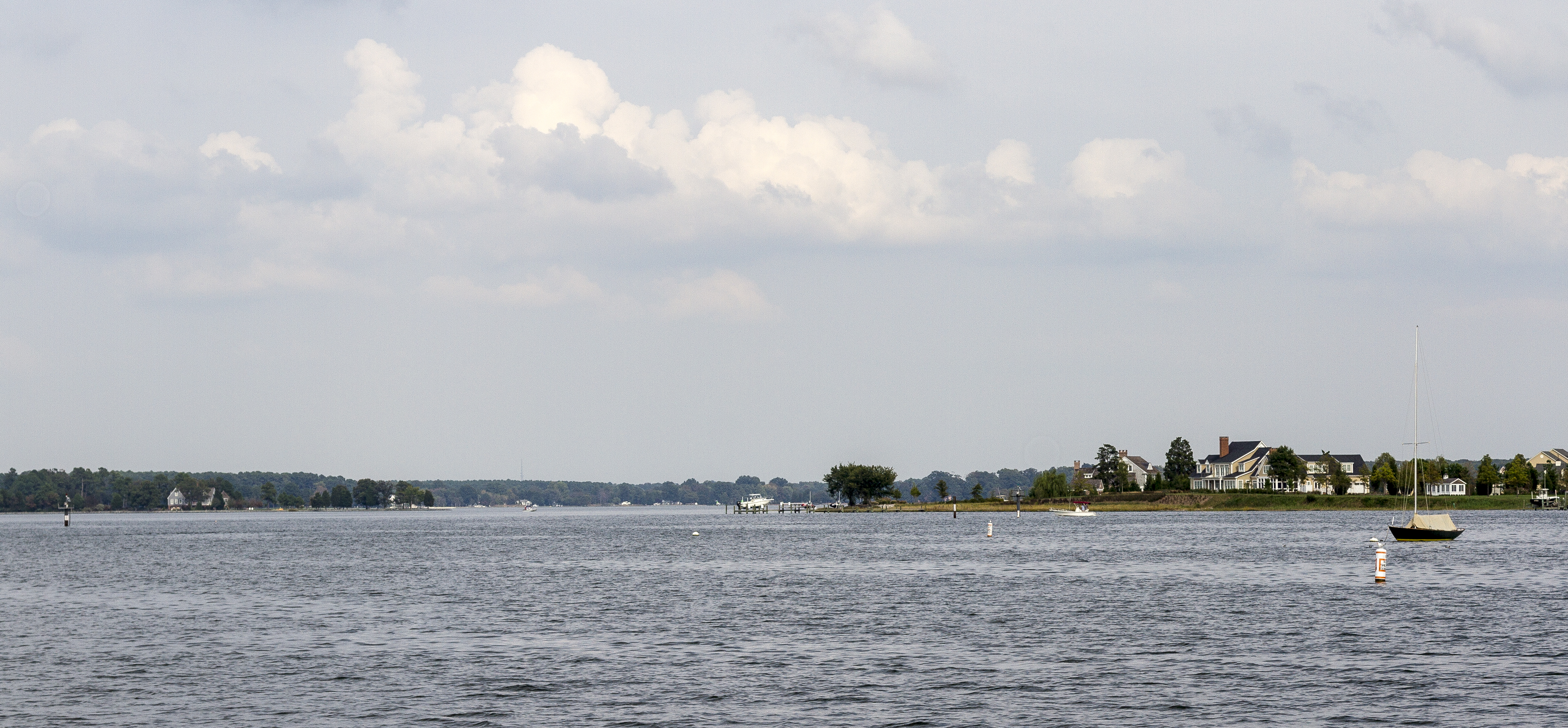 The Tred Avon River from the Oxford-Bellvue Ferry at Oxford, Maryland, USA